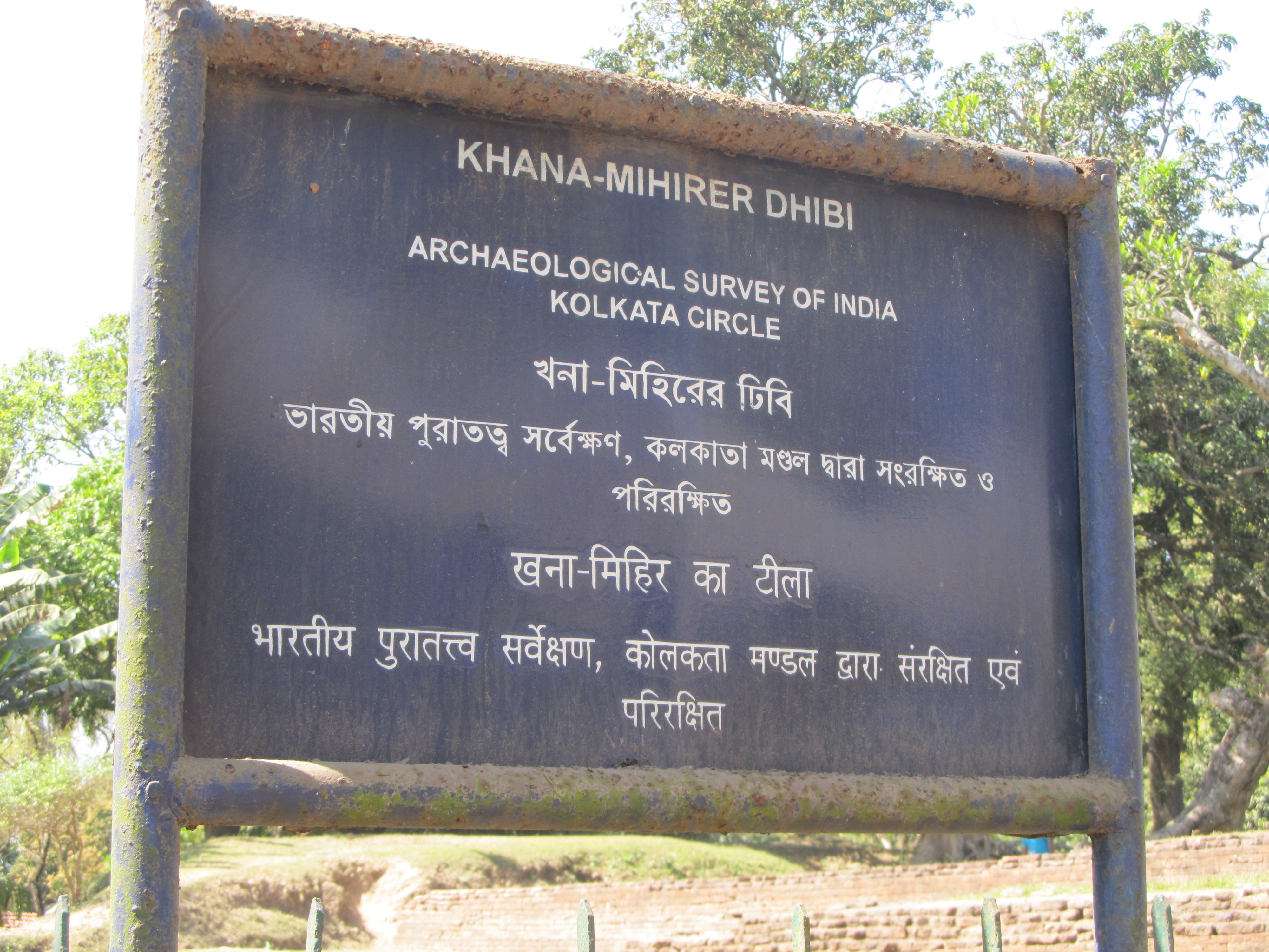 Khana-Mihir Mound (Khana-mihirer Dhipi, hi. Khana-mihir ka tila) also known as (Barahamihirer Dhipi) forms part of huge fortified township named Chandraketugarh. It was first excavated by the Asutosh Museum of Calcutta University in 1956-57 revealing a continuous sequence of cultural remins from 11th century BC pre-mouryan period of 12th century AD Pala period. The most remarcable discovery of the excavation is a polygonal brick temple facing north. This temple has projections on three sides and it is connected with a square vestibule. This temple which was earlier thought to be of Gupta period infact belongs to Pala period which is presumed by its plan adchitecture and decorative designs. The excavation has also unearthed Buddha image, votive stupas, terracotta plaques depicting Buddha and Jataka stories. Coins, terracotta sealing and different types of beads of early historical and historical periods.